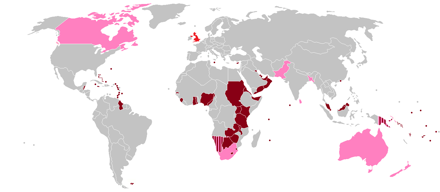 A map of the British Empire as it was on 6 February 1952, the day Queen Elizabeth II began her reign. Colonies, protectorates and mandates are shown in dark red, while dominions are shown in pink. The United Kingdom itself is shown in light red.